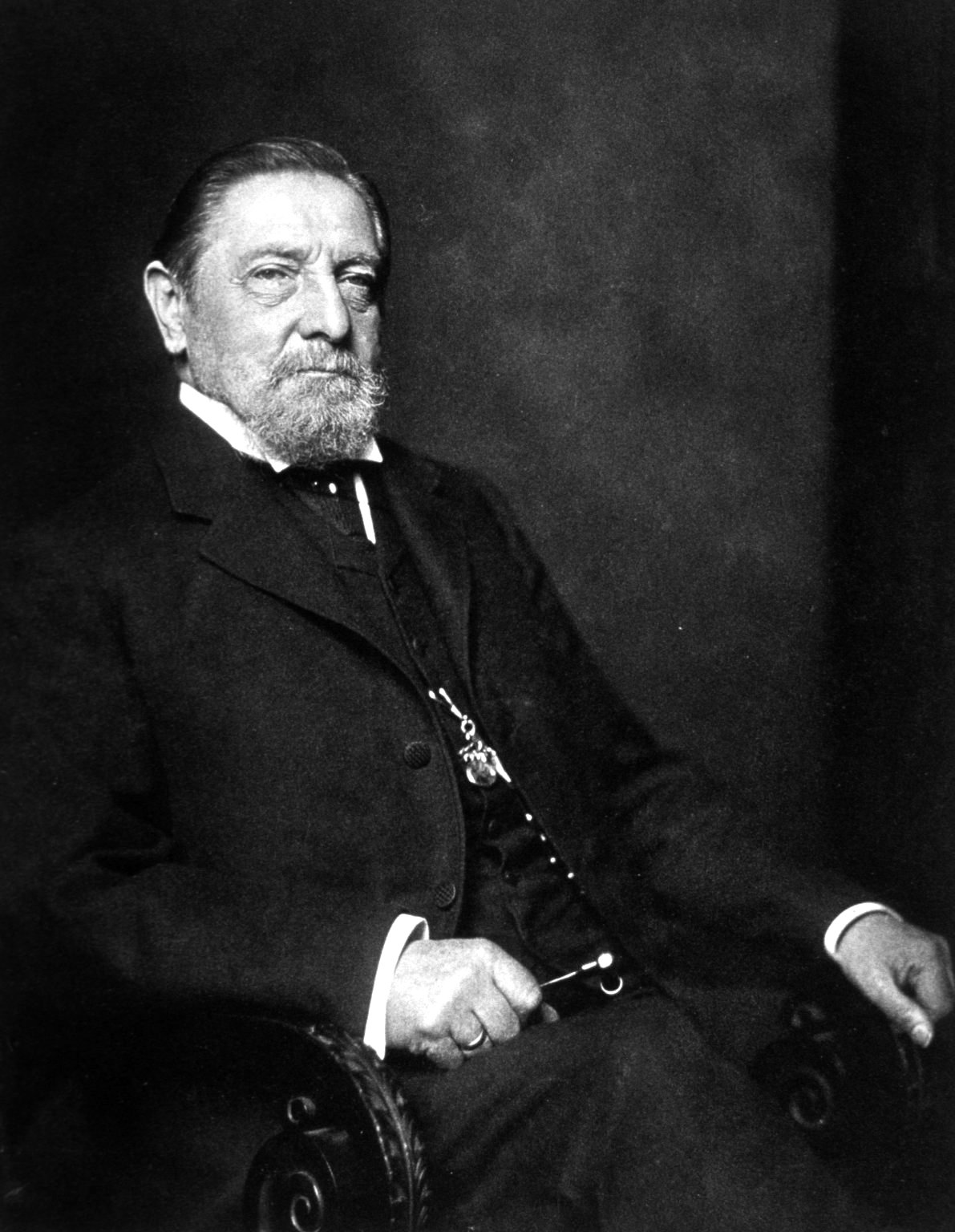 Ernst Viktor von Leyden, German physician